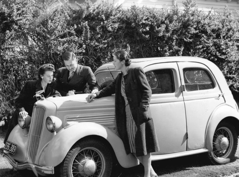 Description: Models - Man and girls by car consulting a road map Photographer: Unknown Date: Unknown Archives New Zealand Reference: AAQT 6539 A1113 The car dates from 1936. Note its mascot is Mobil Oil's (Pegasus). The rust bubbling at the bottom of both doors suggests this photograph dates from after 1945. This photo is from Archives New Zealand's National Publicity Studio's collection. The National Publicity Studio was established in 1945, but its beginnings can be traced back to the establishment in 1924 of a Publicity Office - part of the Department of Internal Affairs. The emphasis of this Publicity Office was on films, photographs and booklets. The purpose of the National Publicity Studio was to provide advice to government departments and state agencies on the provision of photographic, art, and display services and in particular to assist in the production of publicity material aimed at conveying a favourable image of New Zealand.